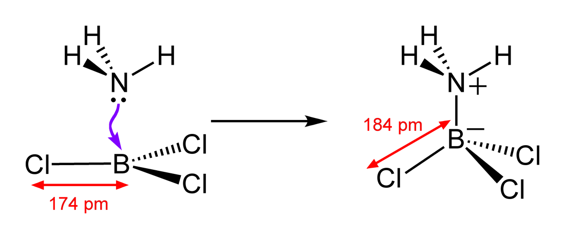 Scheme illustrating the lengthening of B-Cl bonds as ammonia forms a Lewis adduct with boron trichloride. Based on discussion and calculations in Inorg. Chem., 1997, 36 (14), 3022–3030.